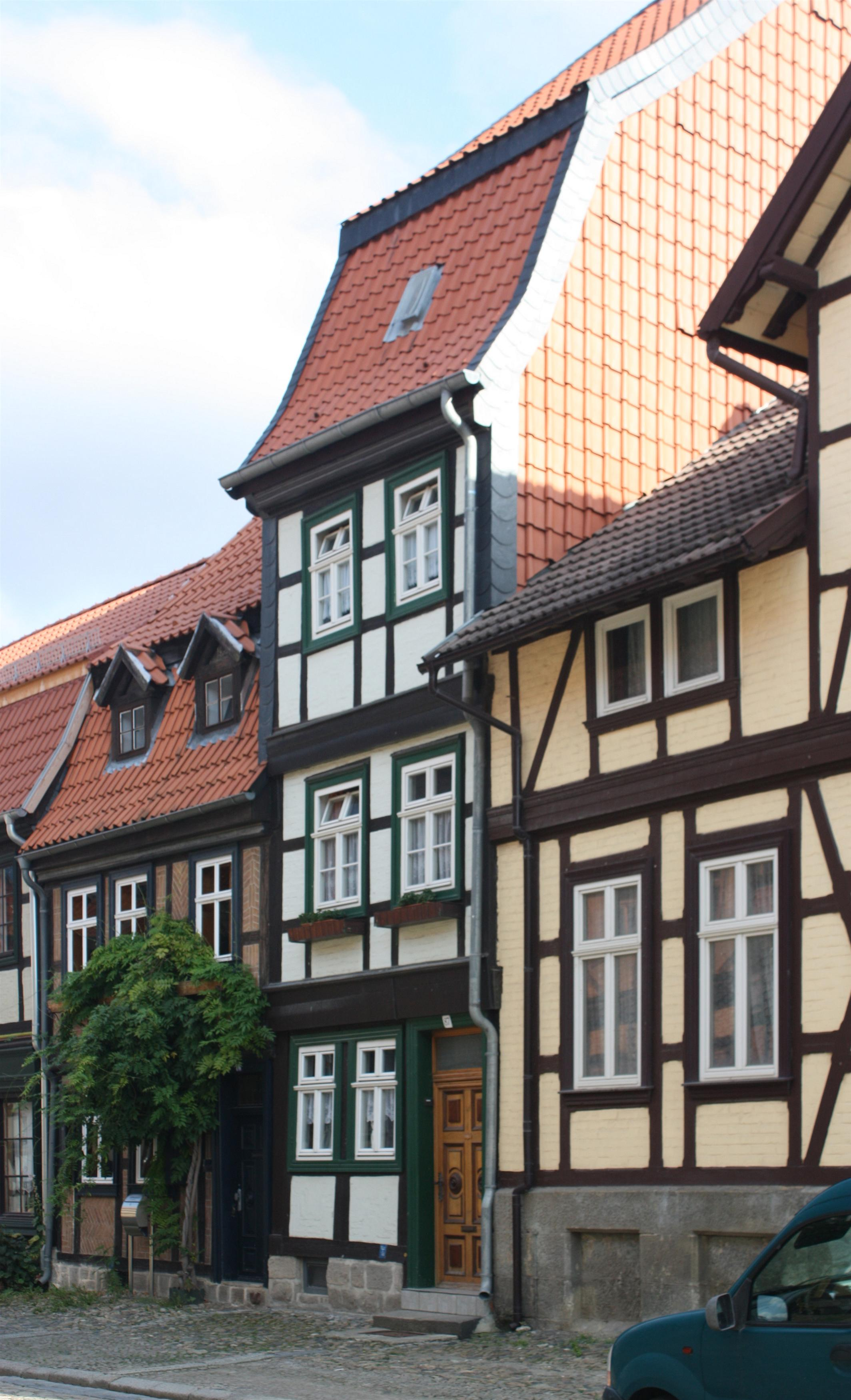 This is a photograph of an architectural monument.It is on the list of cultural monuments of Quedlinburg Augustinern 87 in Quedlinburg